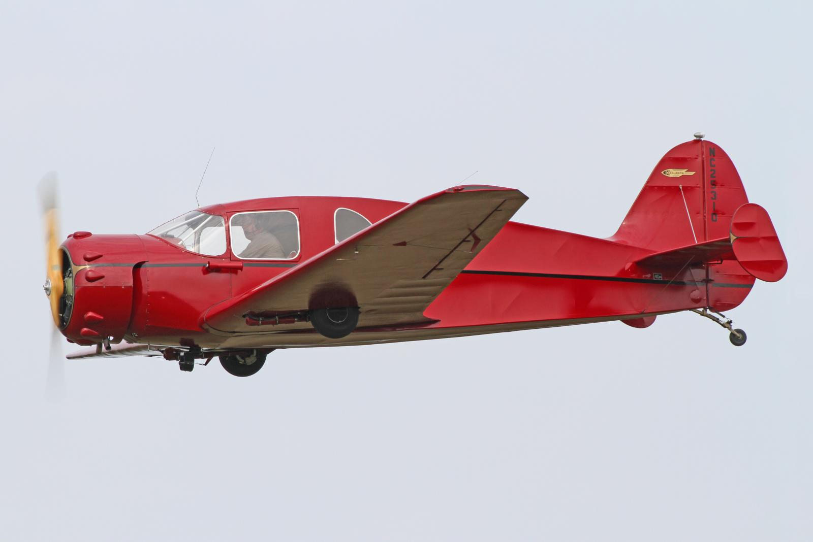 1939 Bellanca 14-9 C/N 1032